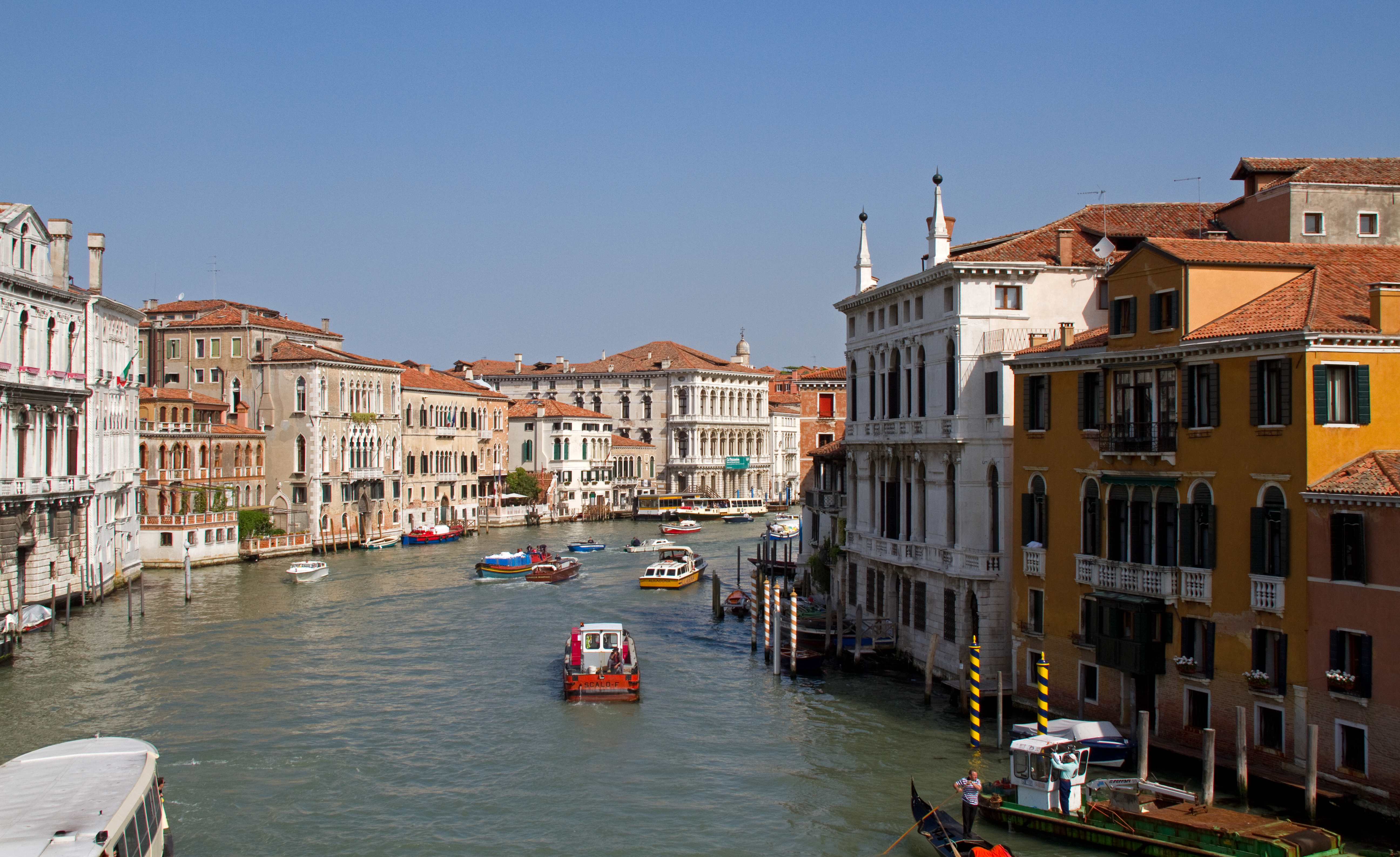 Grand Canal 22